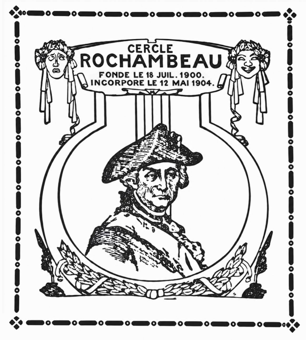 The emblem of Le Cercle Rochambeau, a Holyokais drama troupe performing French theatrical pieces throughout the 20th century.